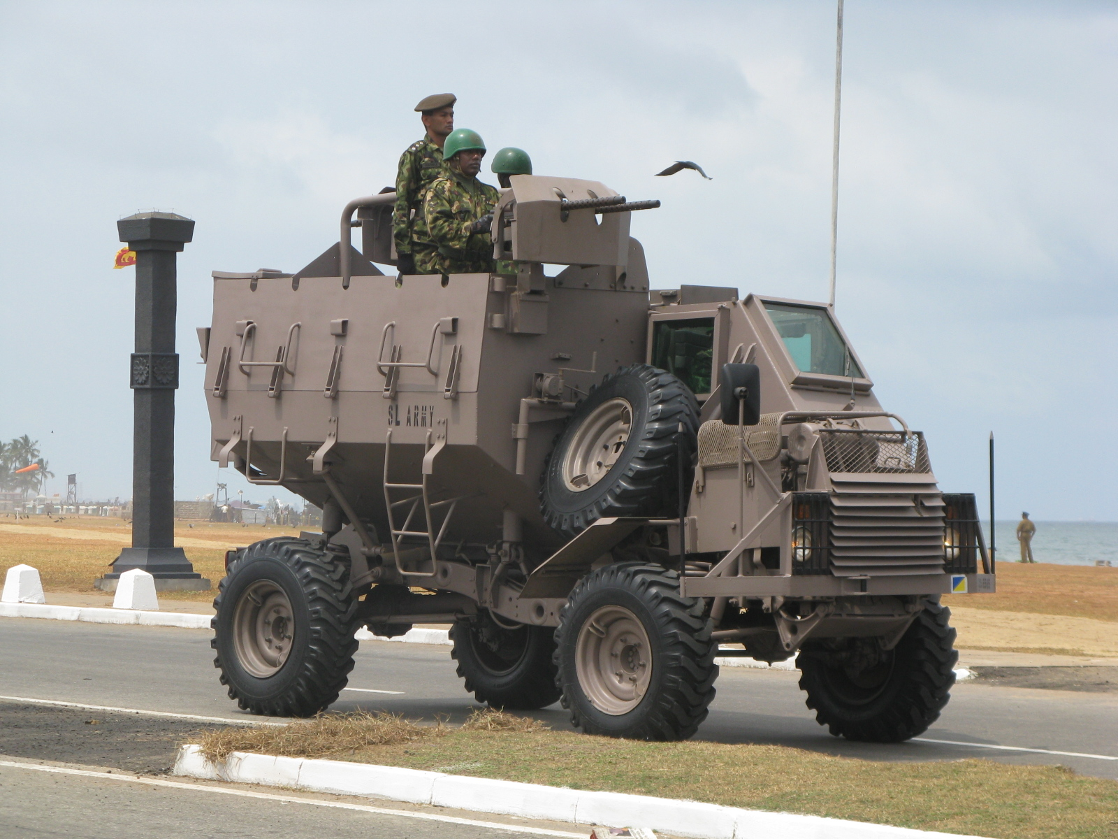 Buffel Armored Personnel Carrier - Sri Lanka Army